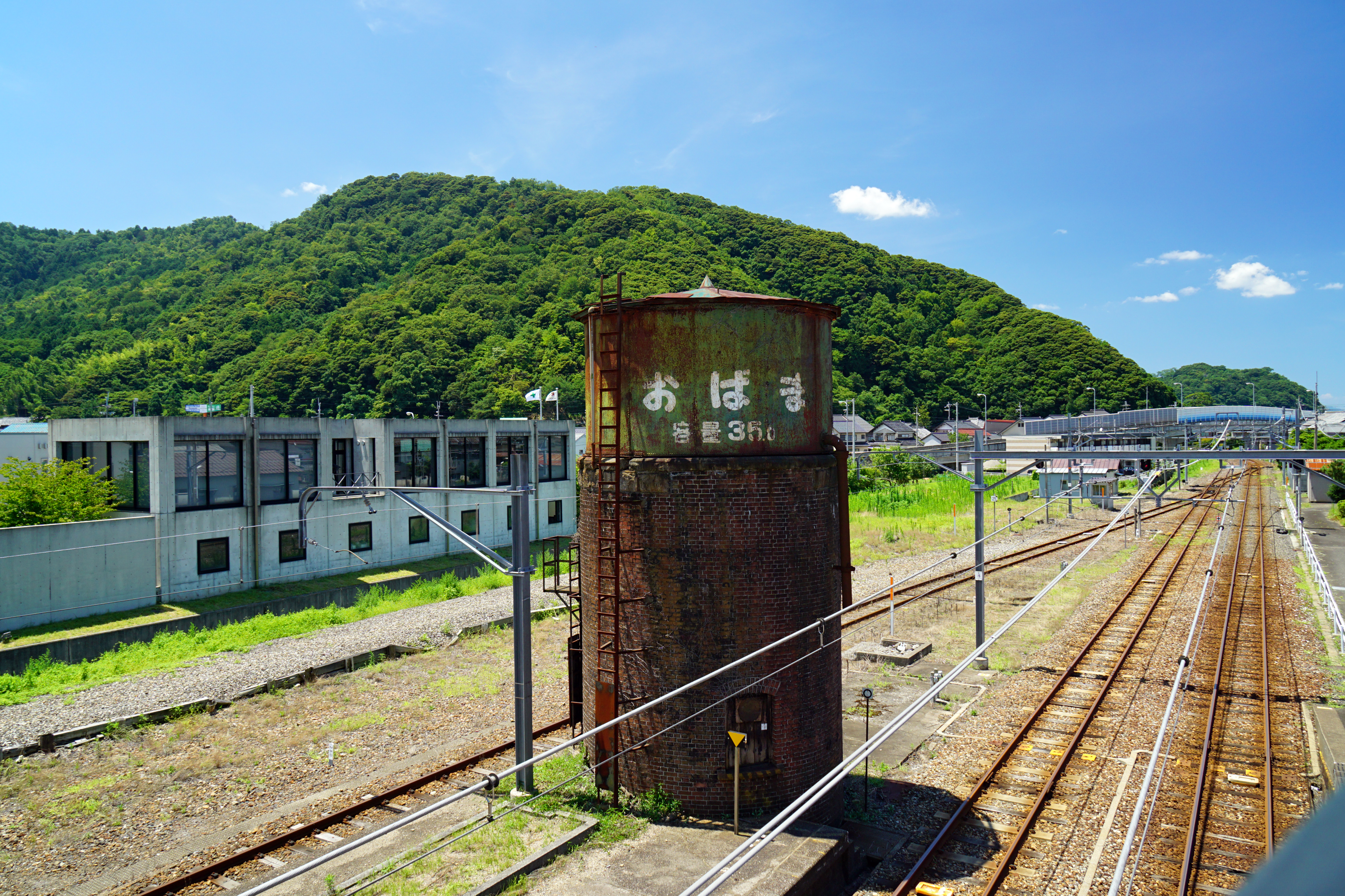 Obama Station in Obama, Fukui prefecture, Japan.